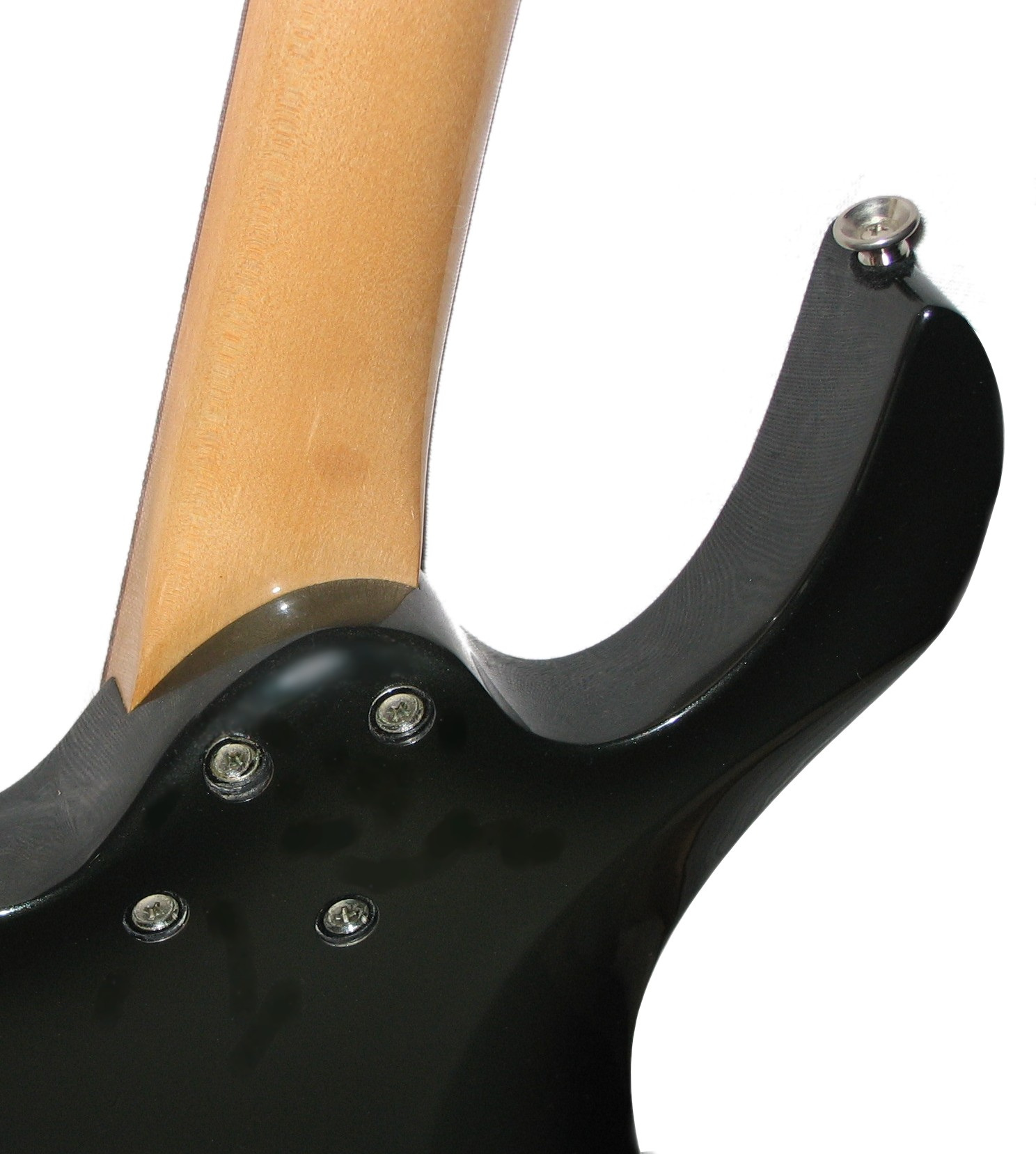 Slick bolt-on neck joint on custom-built superstrat-style solid body electric guitar. Author: GreyCat Date: 2006-08-16